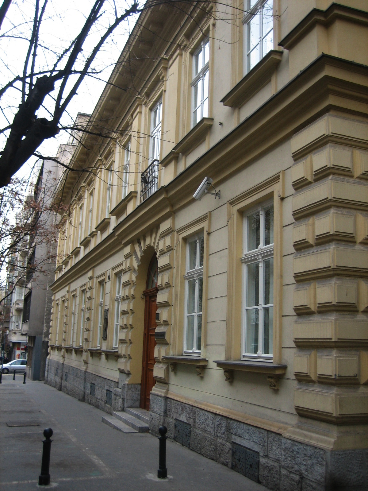 Roman Catholic Archbishopric palace in Belgrade, former embassy of Austria-Hungary in Serbia before WW I